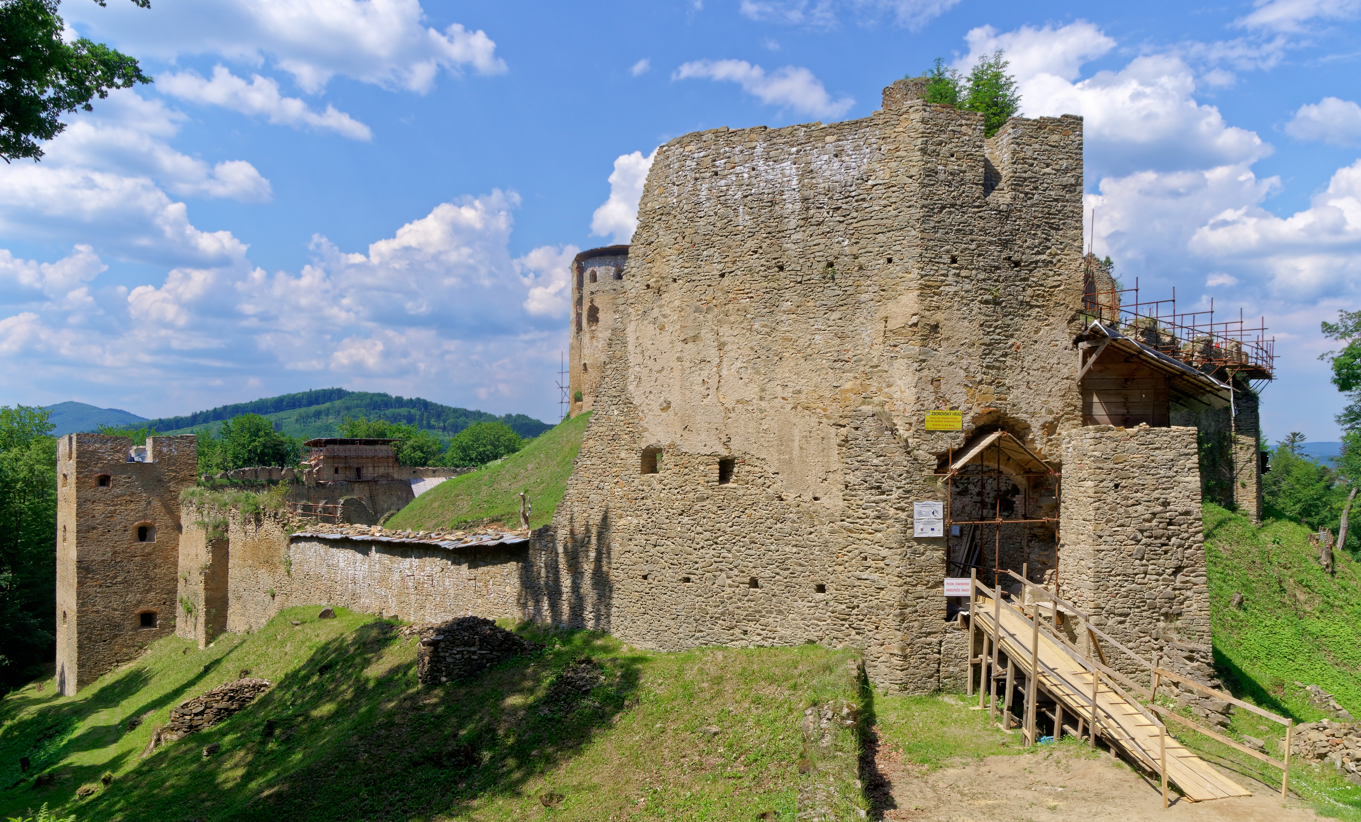 Zborov Castle